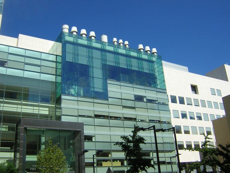 Building 46 (Brain and Cognitive Sciences): Center for Biological and Computational Learning (CBCL) Department of Brain and Cognitive Sciences (BCS) Martinos Imaging Center McGovern Institute for Brain Research Moore Lab.html The Moore Lab The Picower Institute for Learning and Memory The Seung Lab Mriganka Sur Laboratory